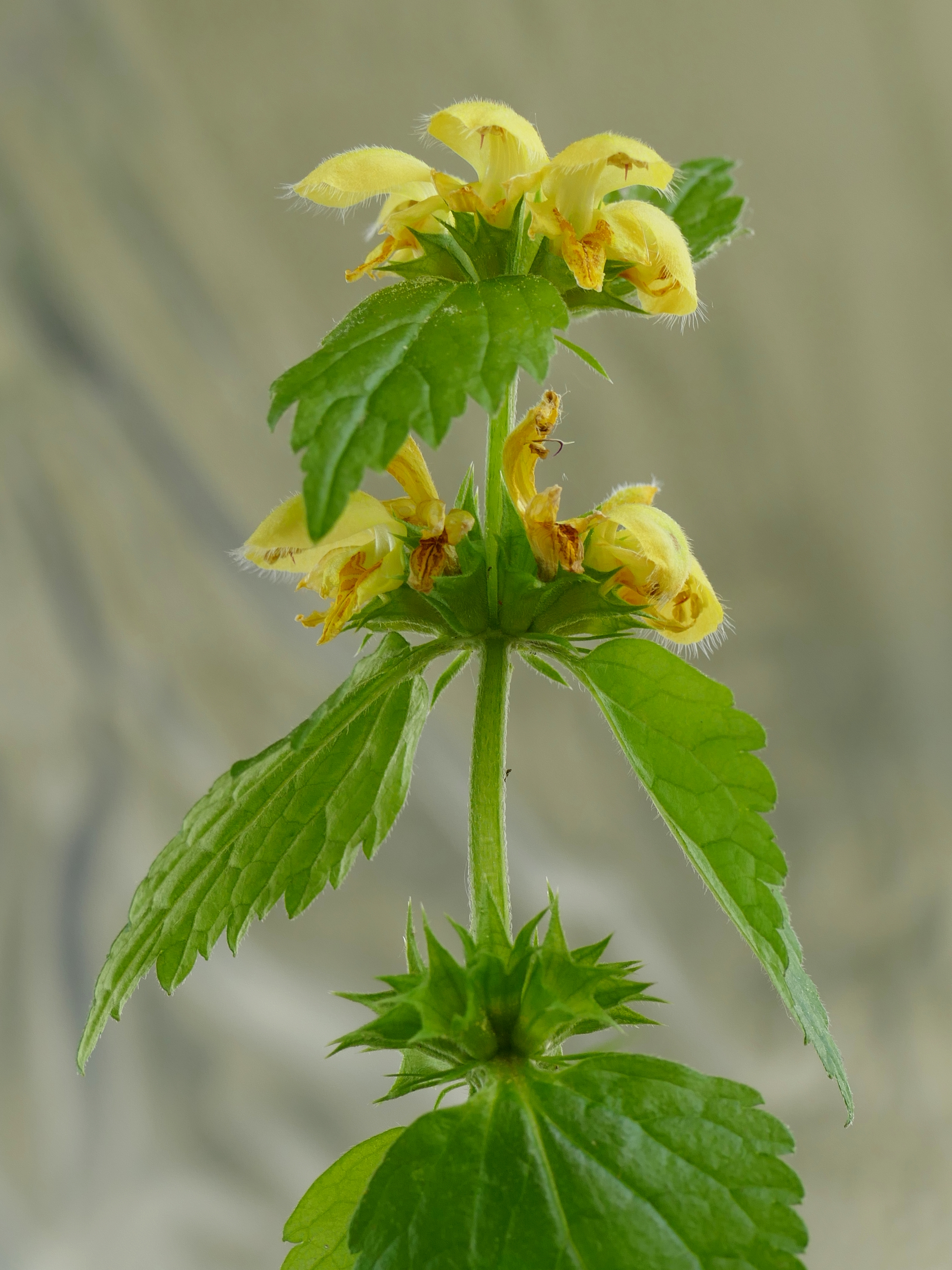 Lamium galeobdolon (L.) L. Flowers of Yellow archangel. Moscow region, Russia.